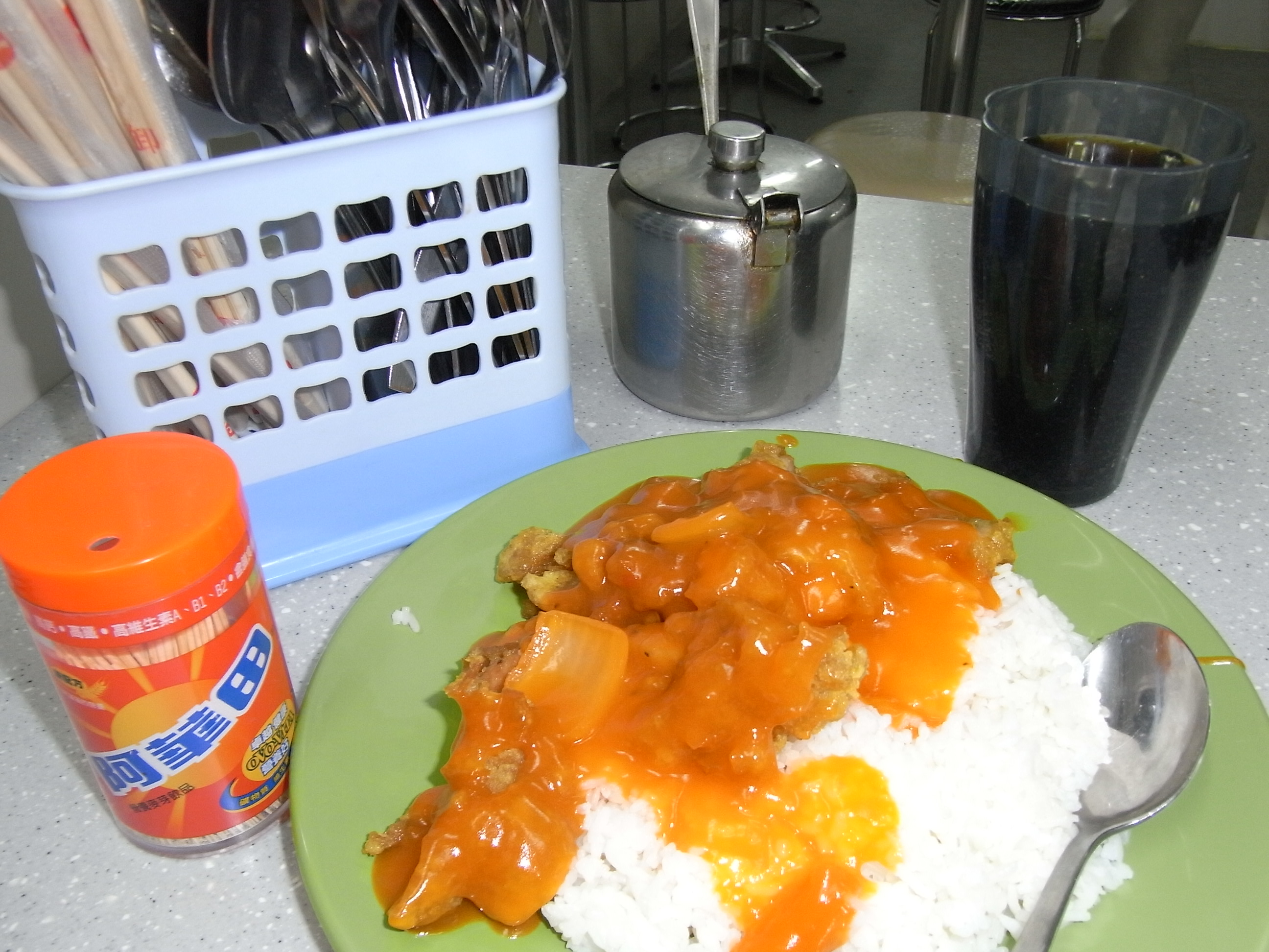 碟頭飯, Set lunch rice, Sheung Wan, Hong Kong